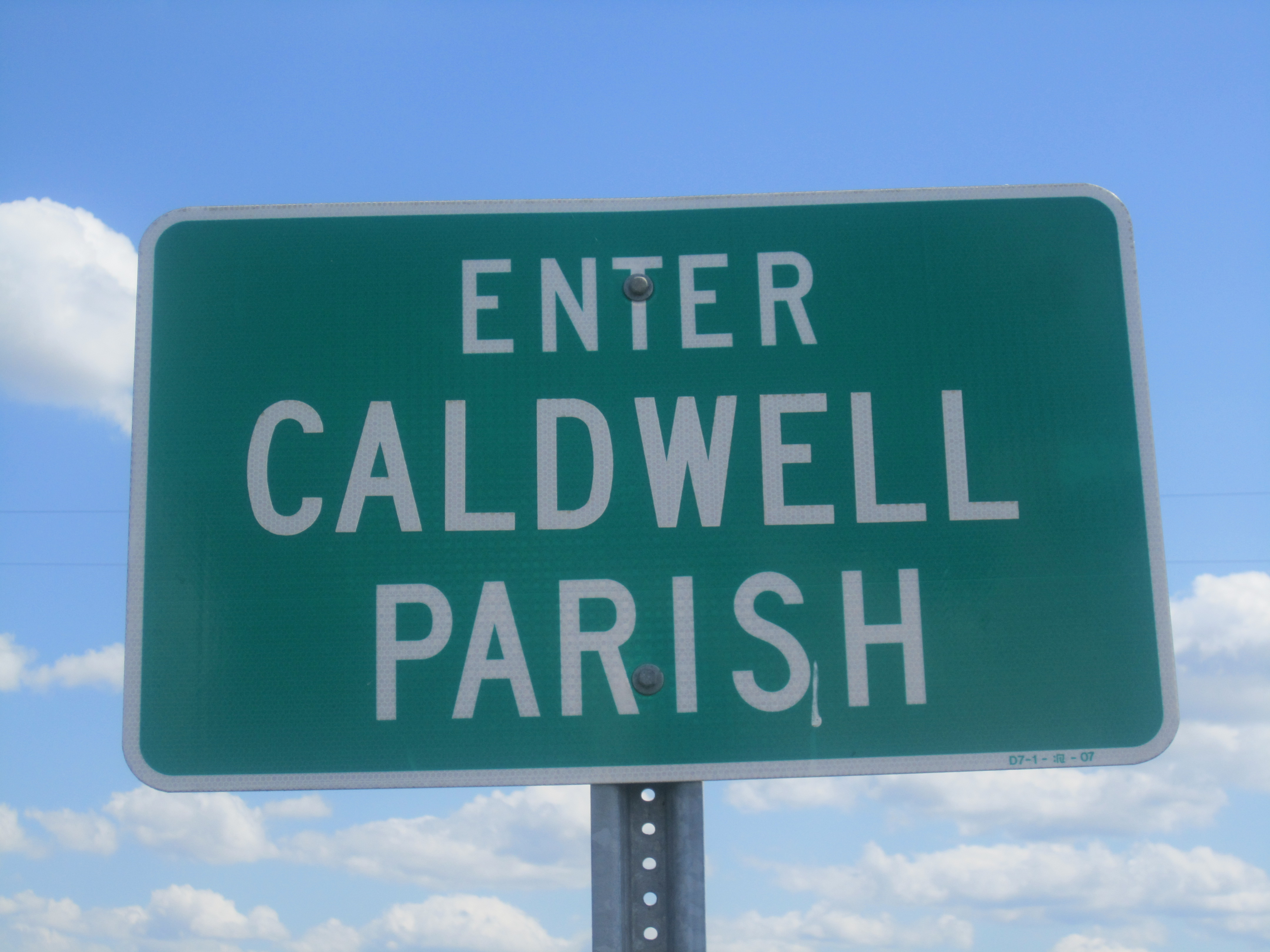 I took photo in Caldwell Parish, LA, with Canon camera.